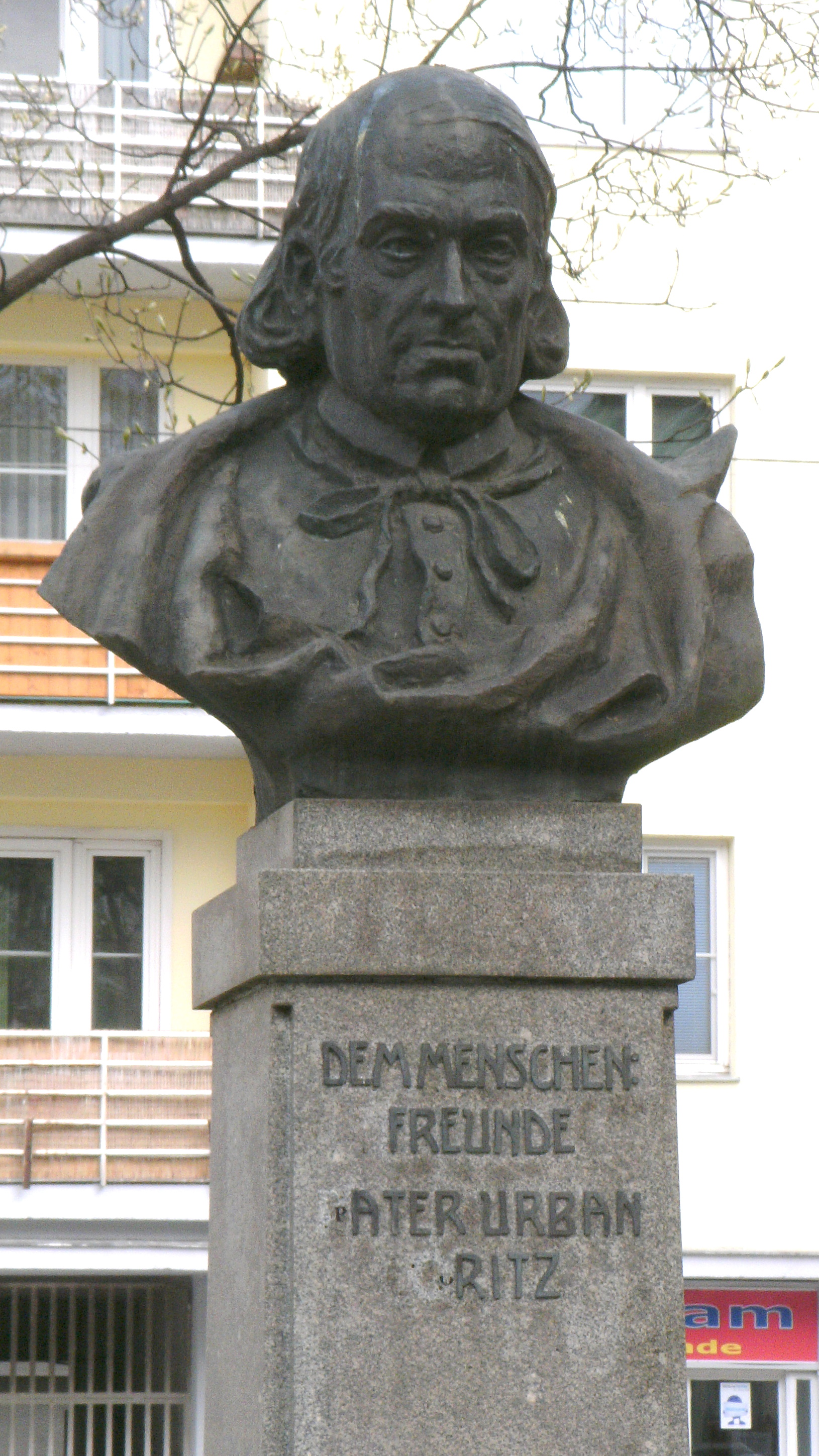 Memorial to Urban Loritz, Urban-Loritz-Platz, Vienna's 7th district